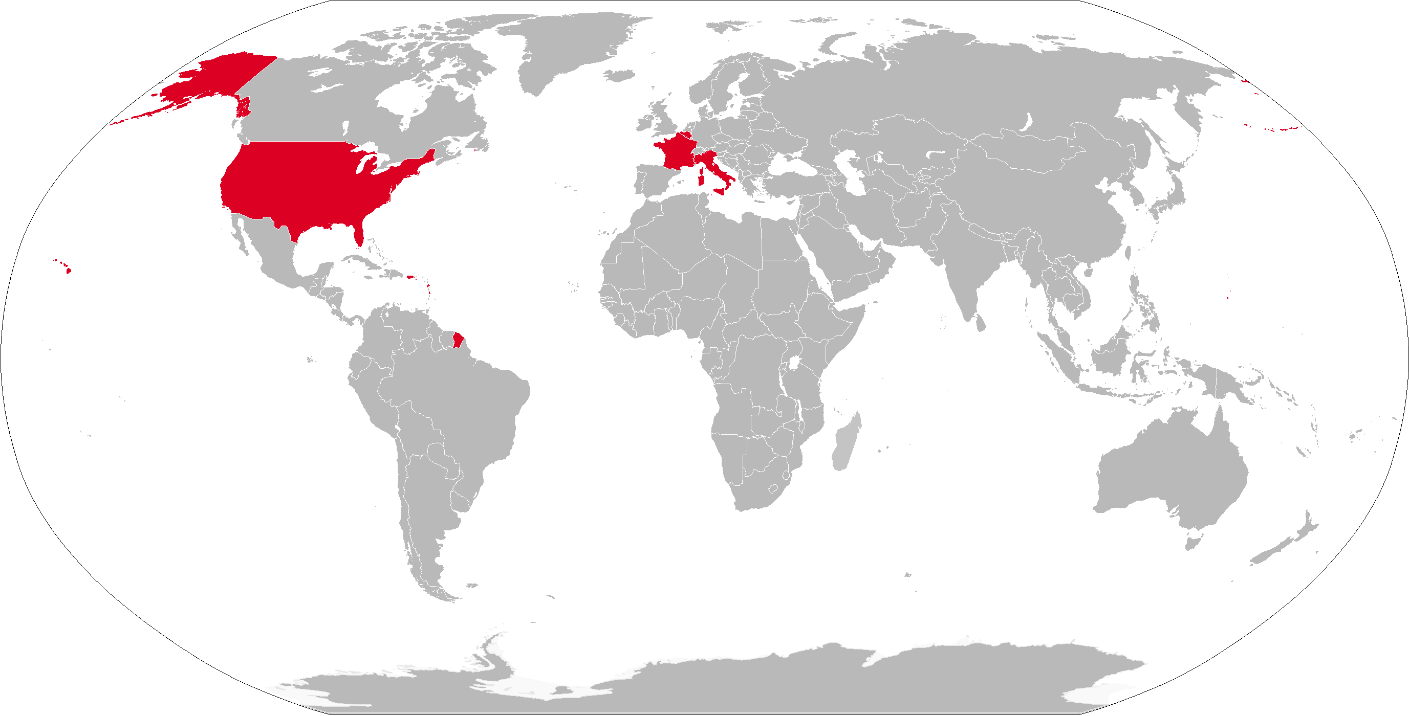 Map of M46 operators with former operators in red